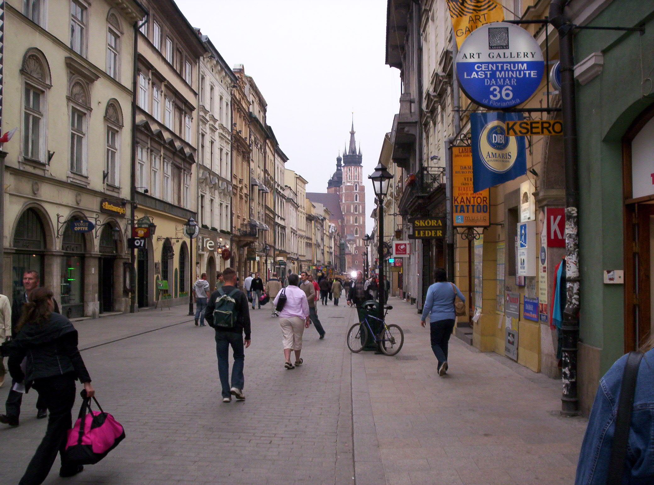 Ulica Floriańska (Florian Street) with the view of St. Mary's Church, Krakow, Poland.